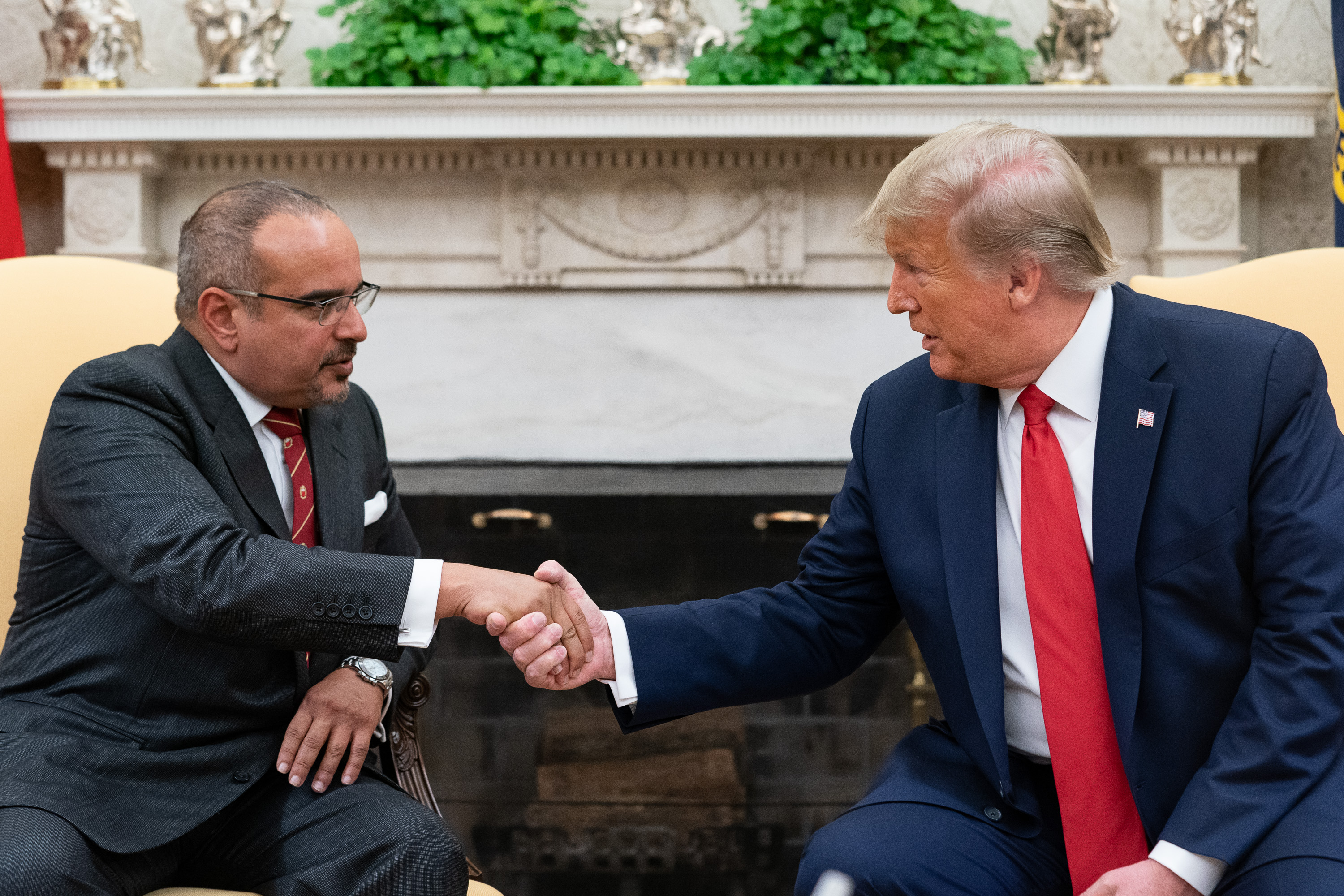 President Donald J. Trump greets Prince Salman bin Hamad bin Isa Al Khalifa, Crown Prince of Bahrain Monday, Sept. 16, 2019, in the Oval Office of the White House. (Official White House Photo by Joyce N. Boghosian)